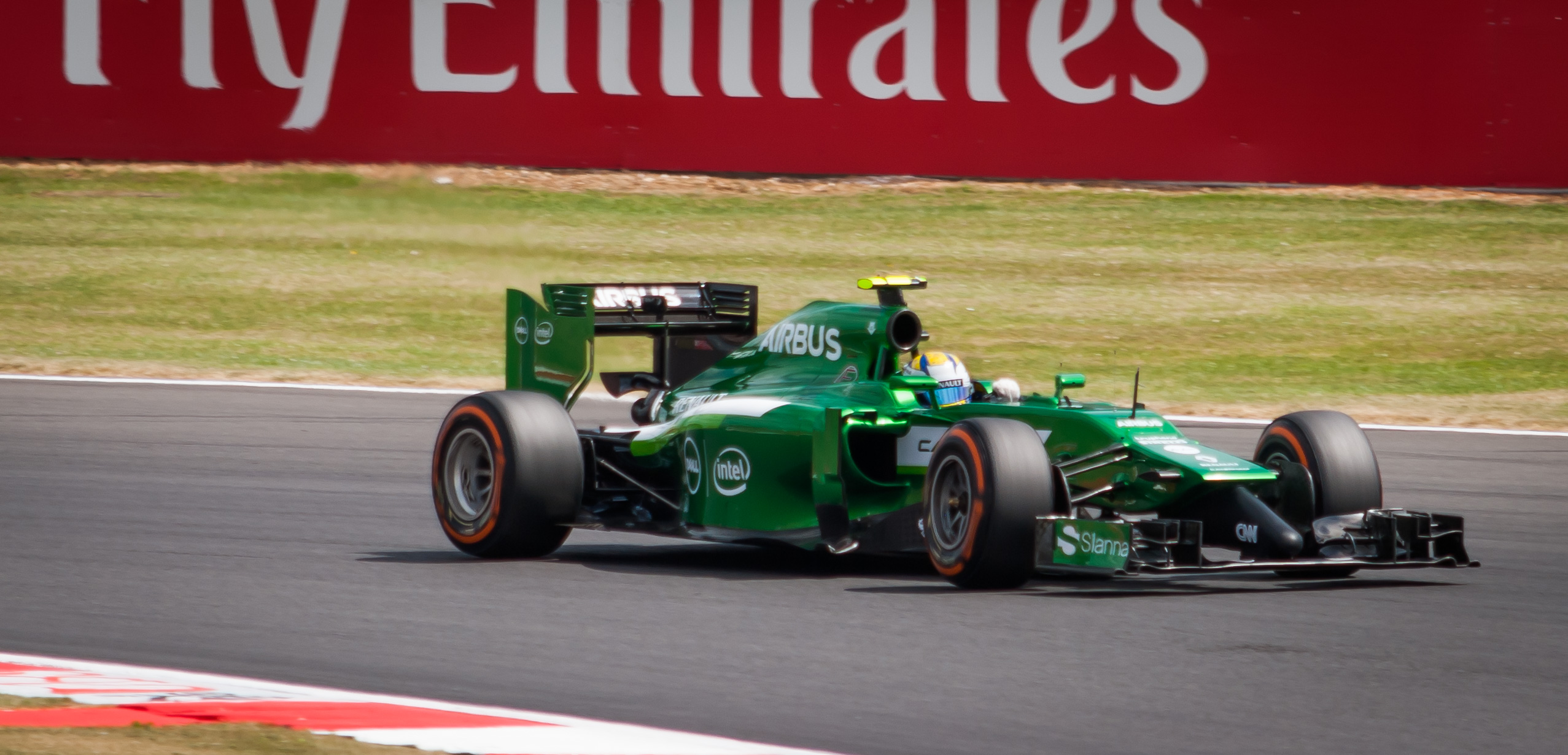 Marcus Ericsson in his Caterham CT05 during the 2014 British Grand Prix Weekend.